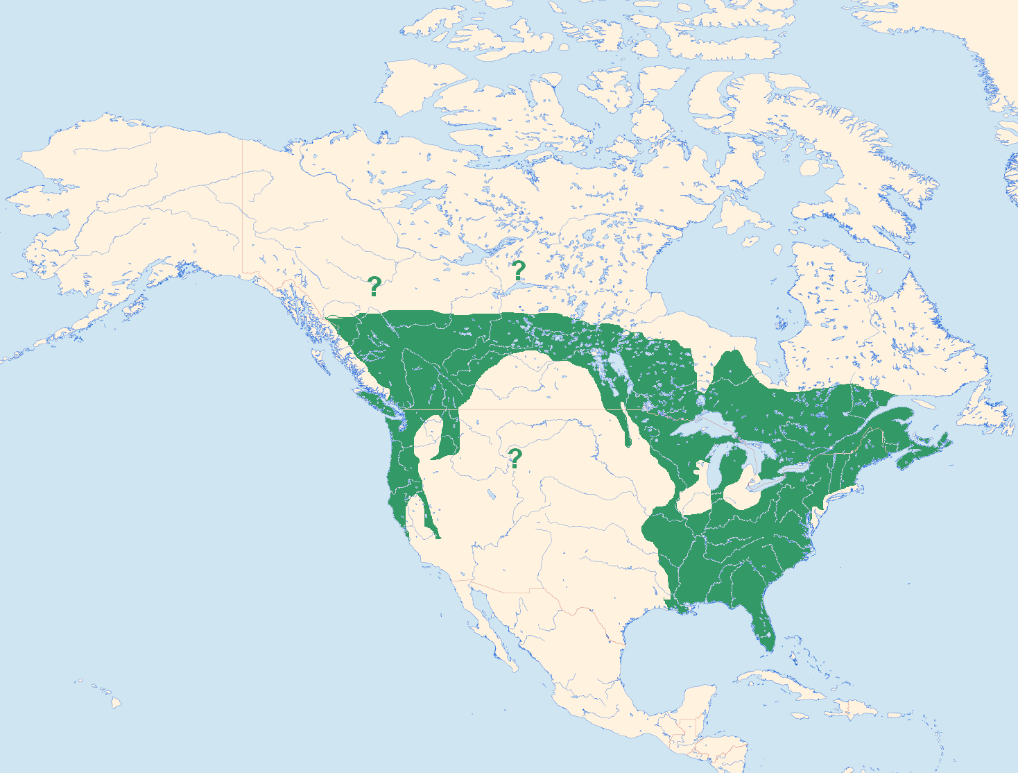 Pileated Woodpecker distributionb map. Source: Bull, Evelyn L. and Jerome A. Jackson: Pileated Woodpecker (Dryocopus pileatus), The Birds of North America Online (A. Poole, Ed.). Ithaca: Cornell Lab of Ornithology; Retrieved from the Birds of North America Online 2011